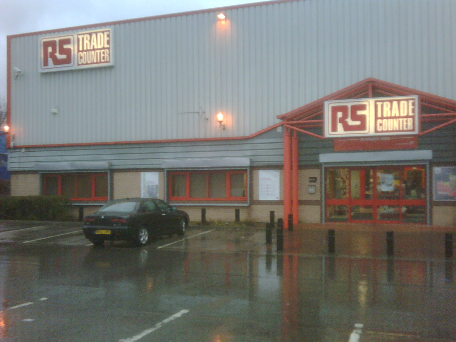 The RS Components trade counter on Philippa Way (off Geldard Road), Wortley, Leeds. Taken on the morning of Friday the 26th of February 2010.